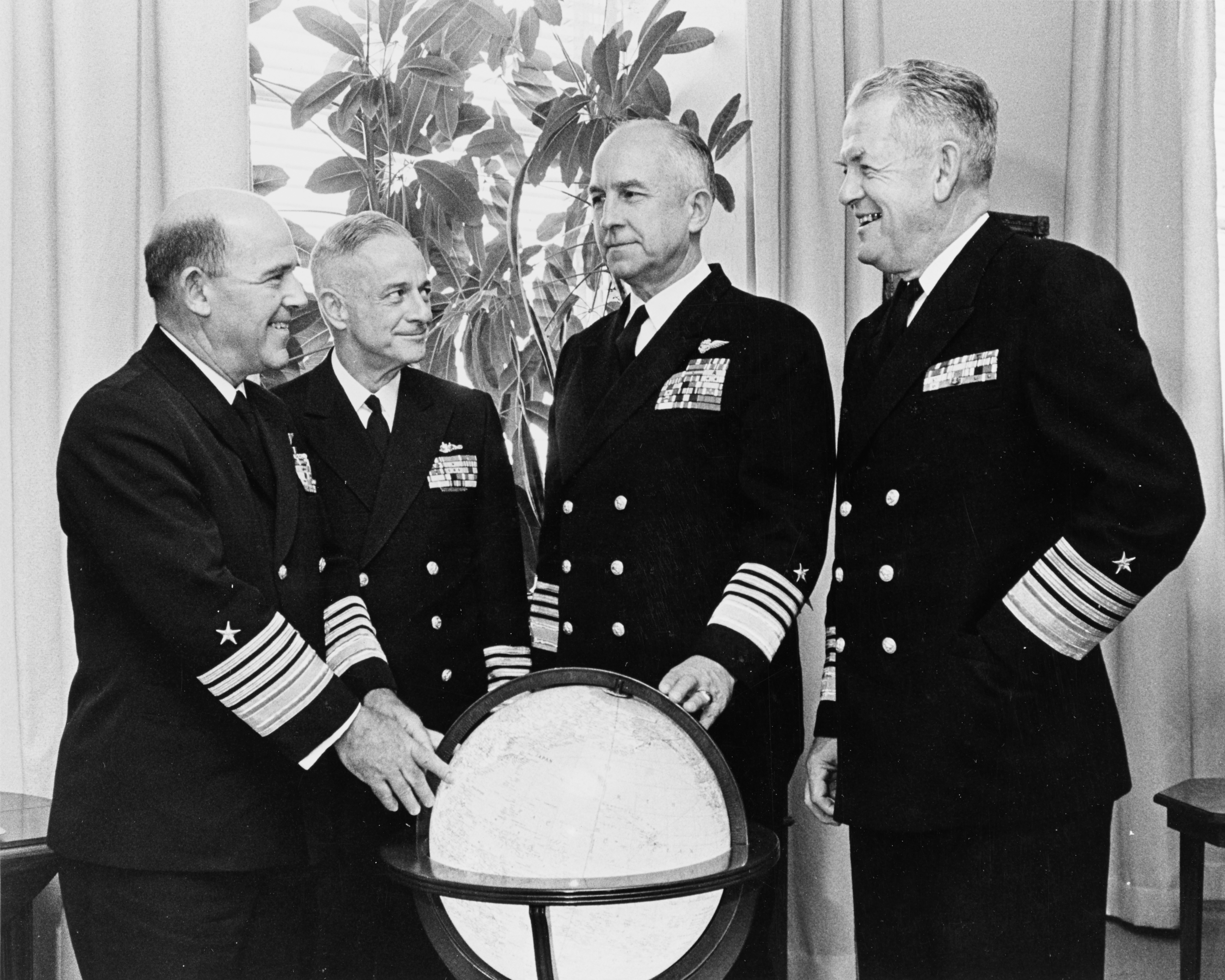 Photo #: NH 47767 Admiral Thomas H. Moorer, USN, Chief of Naval Operations Poses by an illuminated World globe with other U.S. Navy senior commanders, 1968. Those present are (from left to right): Admiral John J. Hyland, USN; Admiral John S. McCain, USN; Admiral Thomas Hinman Moorer; and Admiral Ephraim P. Holmes, USN. Photographed by CNO Photographer Bill Mason. Official U.S. Navy Photograph, from the collections of the Naval Historical Center.